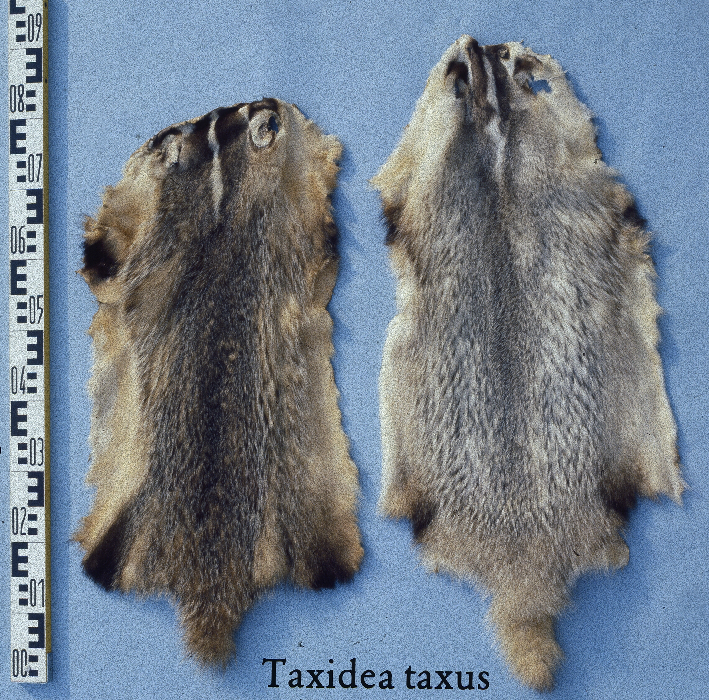 American badger fur skins (Taxidea taxus). Fur skin collection, Bundes-Pelzfachschule, Frankfurt/Main, Germany